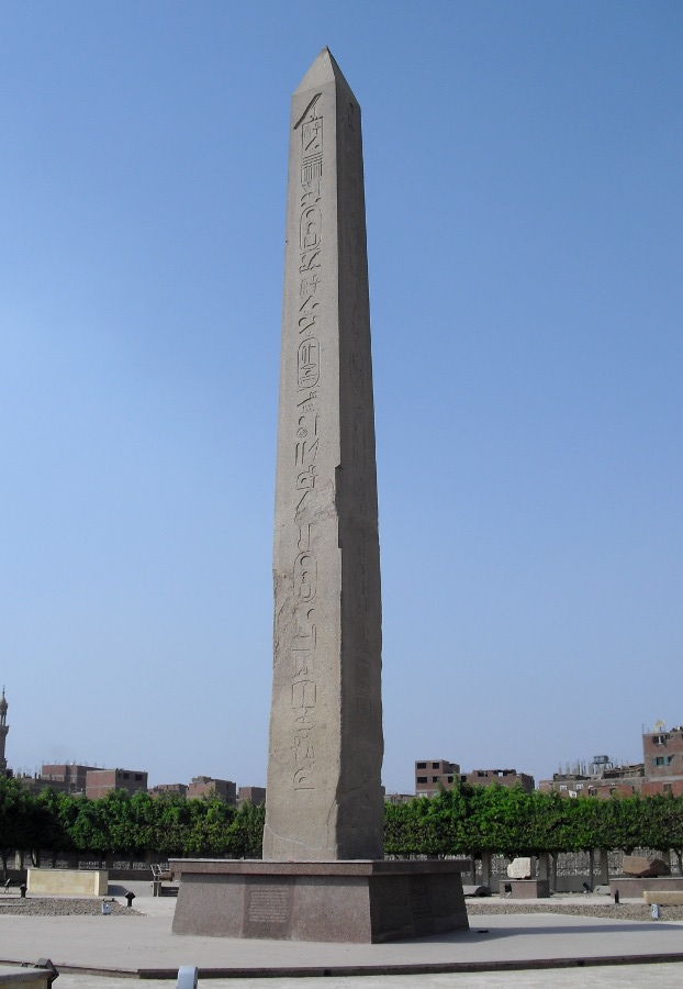 Obelisk of Sesostris I, 12th Dynasty, Middle Kingdom in Heliopolis